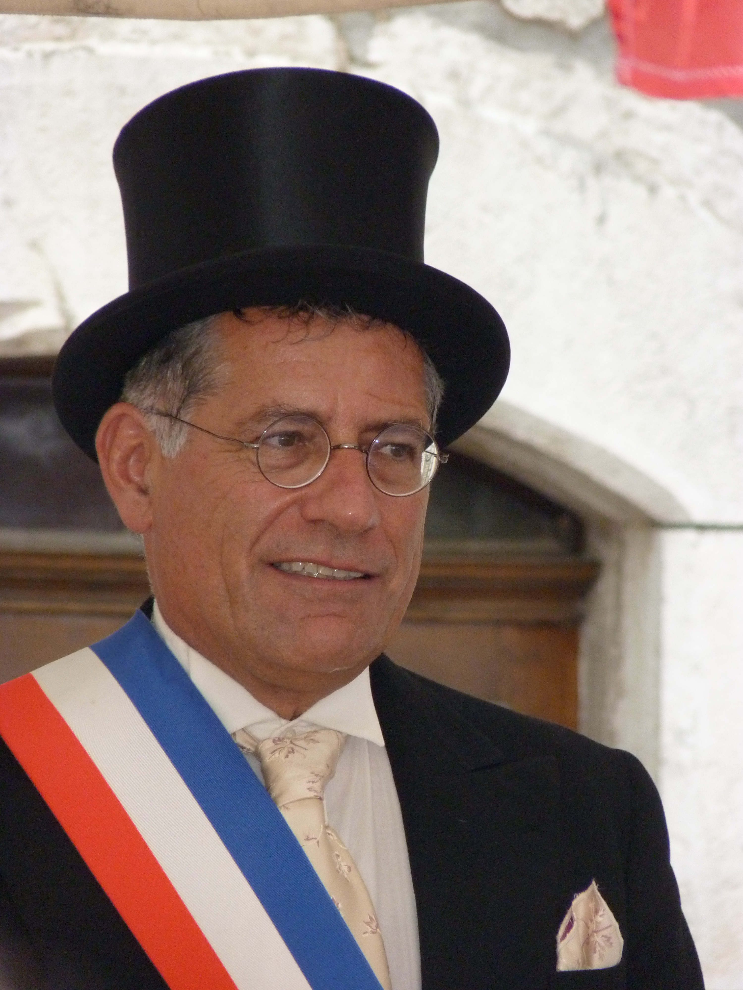 Christian Berkesse, former mayor of La Colle-sur-Loup, in 2011.